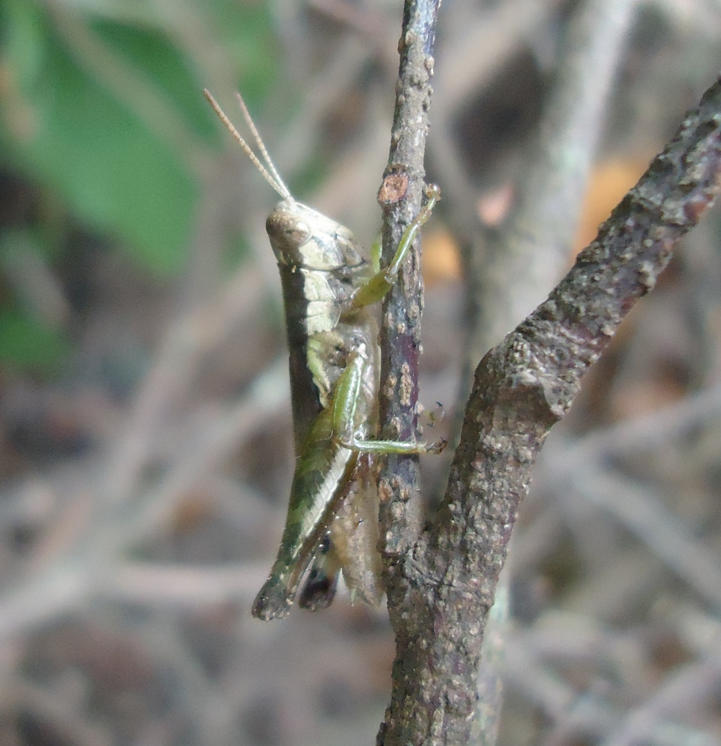 Adult of the small rice grasshopper Pseudoxya diminuta (Walker, 1871) from Mindanao, Philippines